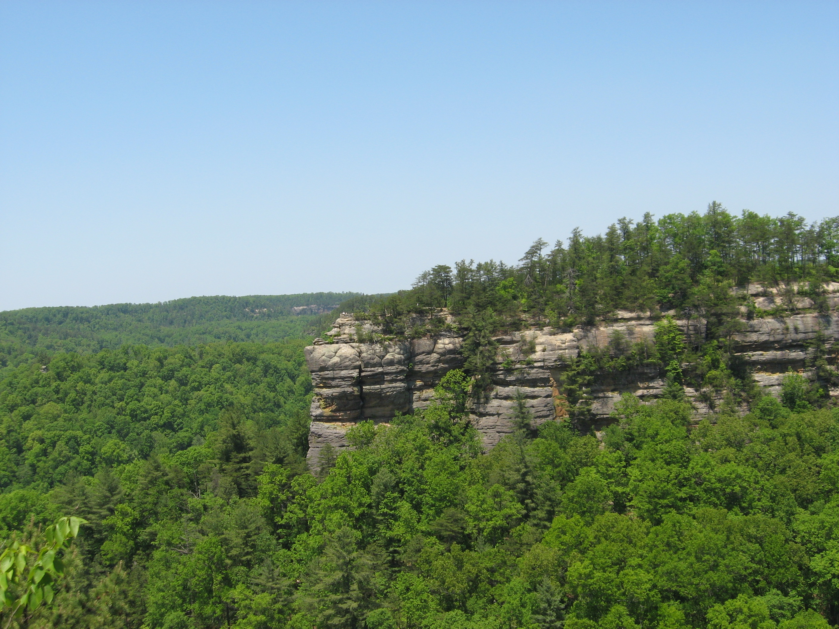 A view of chimney top rock from half-moon, summer 2006.